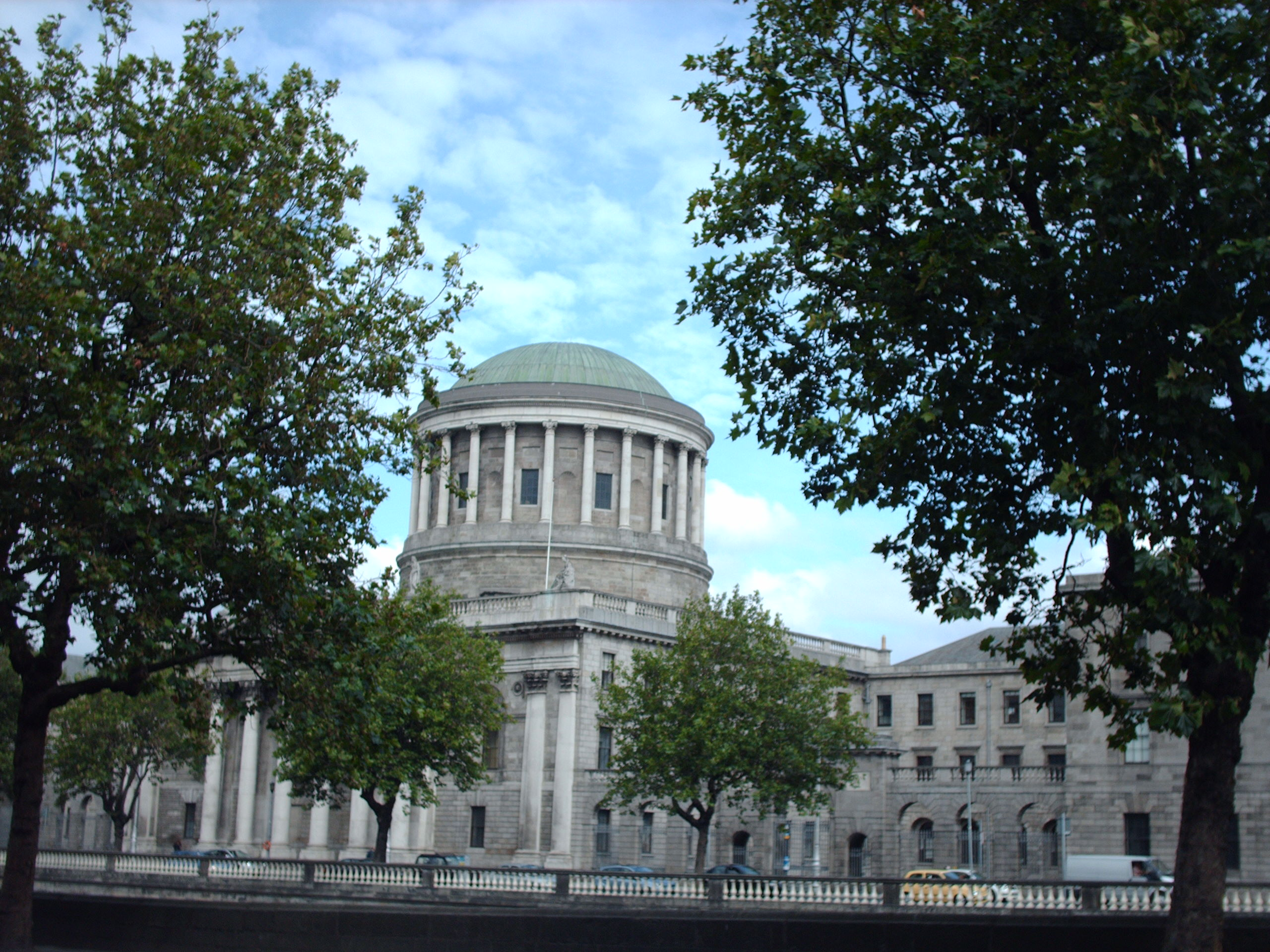 Four Courts, Dublin, Ireland check usage